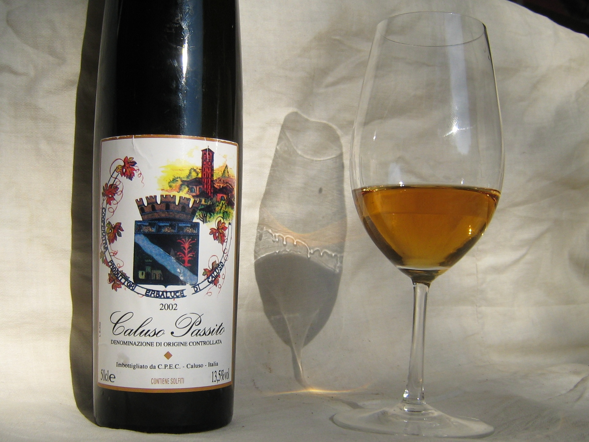 Photo of bottle and glass of passito dessert wine from Caluso in Northern Italy, nicely showing wine legs